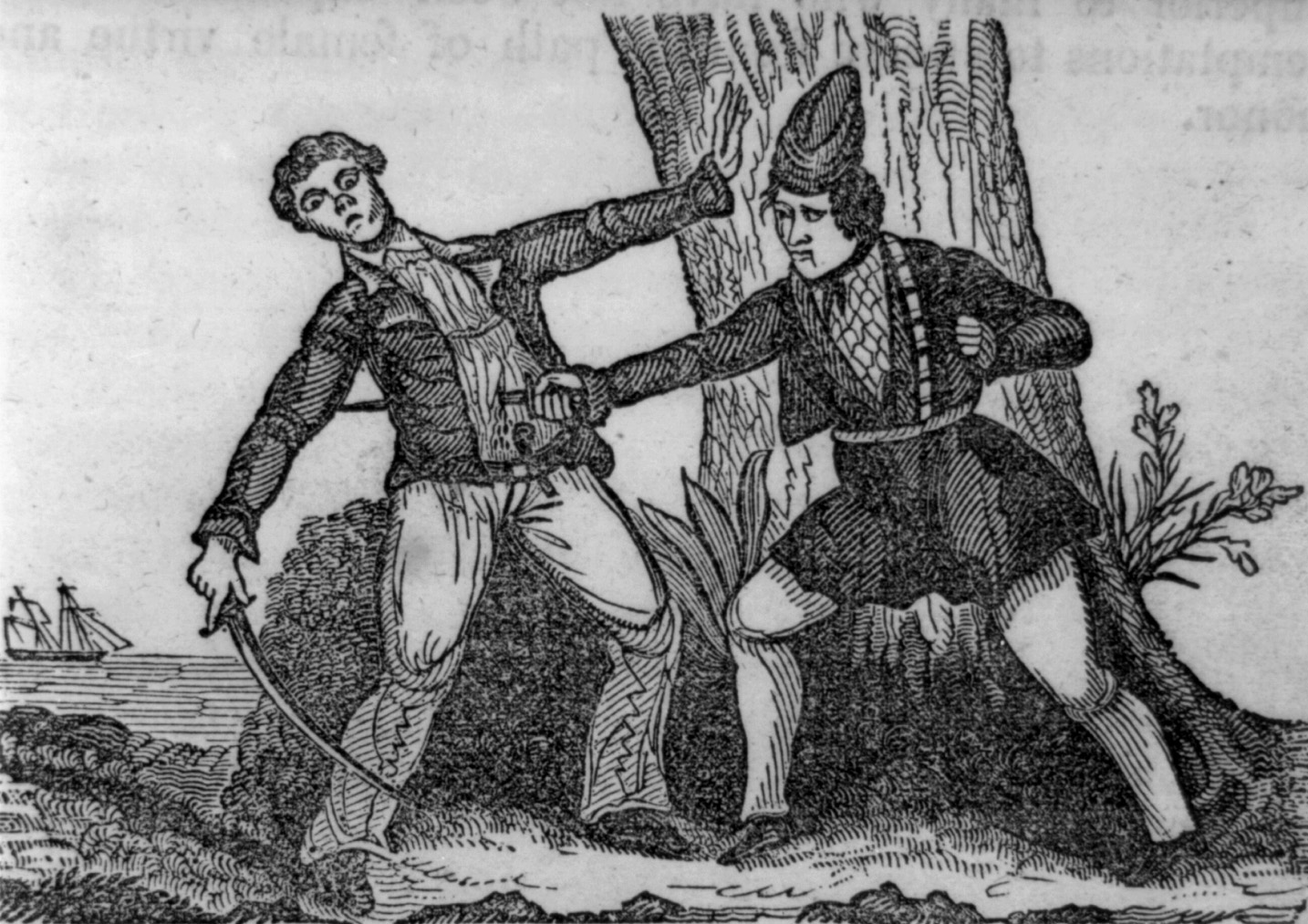 Mary Read killing her antagonist [with a sword]. Illus. in: The Pirates Own Book, 1842, p. 389.